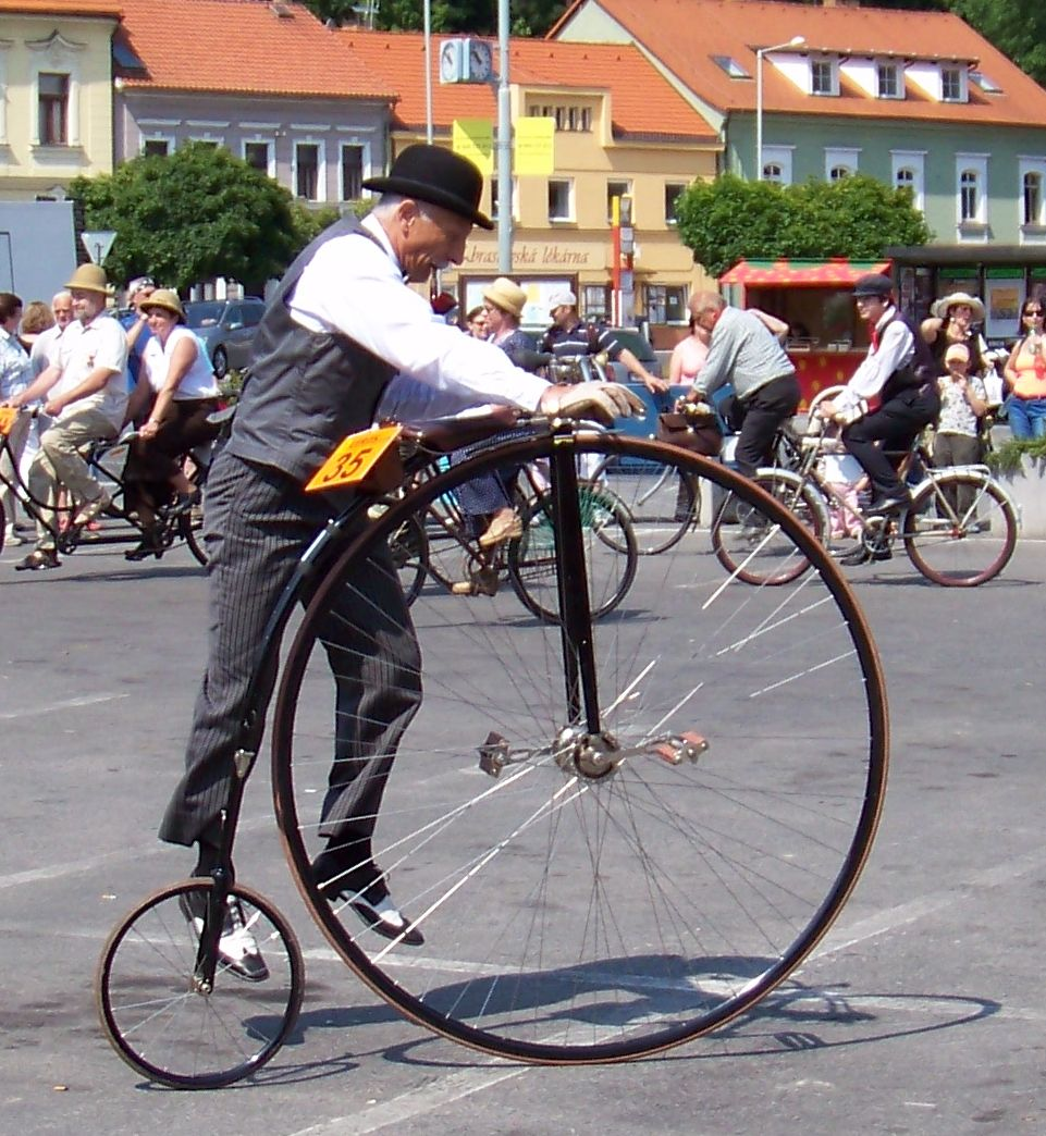 Prague-Zbraslav, the Czech Republic. Zbraslav Square, a show of Veteran Bicycle Club Zbraslav. - OpenStreetMap(Info)